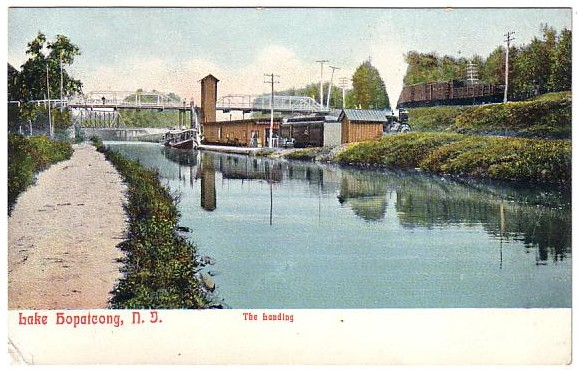 The former Lake Hopatcong train station prior to the construction of the new station in 1911.